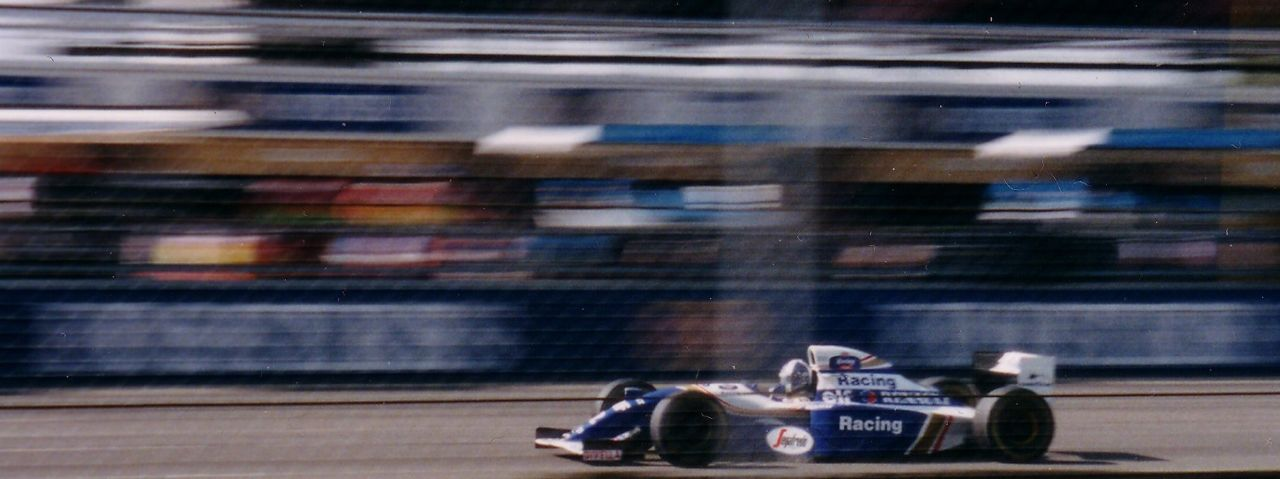 David Coulthard Williams FW16 (1994) during the British Grand Prix